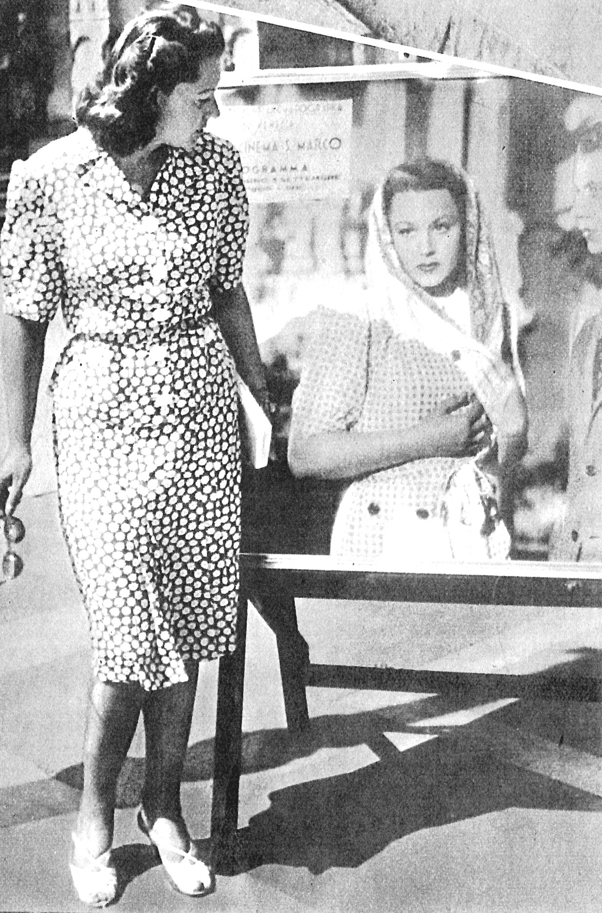 Paola Barbara alla Mostra di Venezia 1940 per "la peccatrice" (Palermi, 1940)